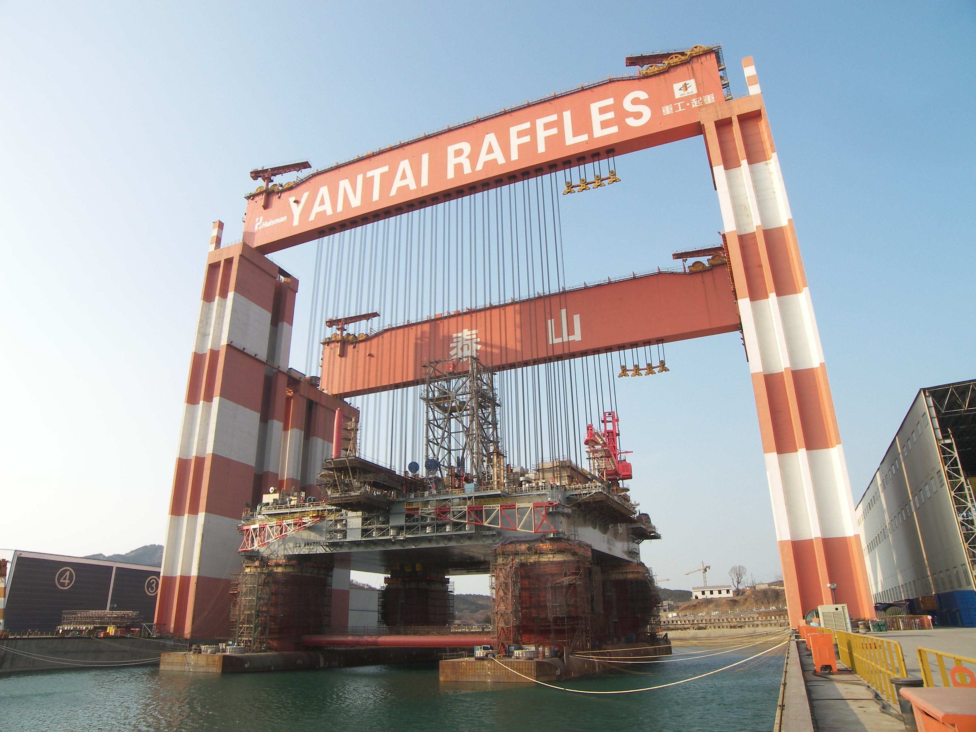 TAISUN, the biggest and strongest crane in the world seen together with the semi-submersible drilling rig "SS Amazonia". At this time the topsides is already lowered onto the hull, but the crane is still connected. On the crane there is written 泰山 (Taishan) and Yantai raffles. Picture was taken in March 2010 in Yantai Raffles Shipyard in Yantai, China.